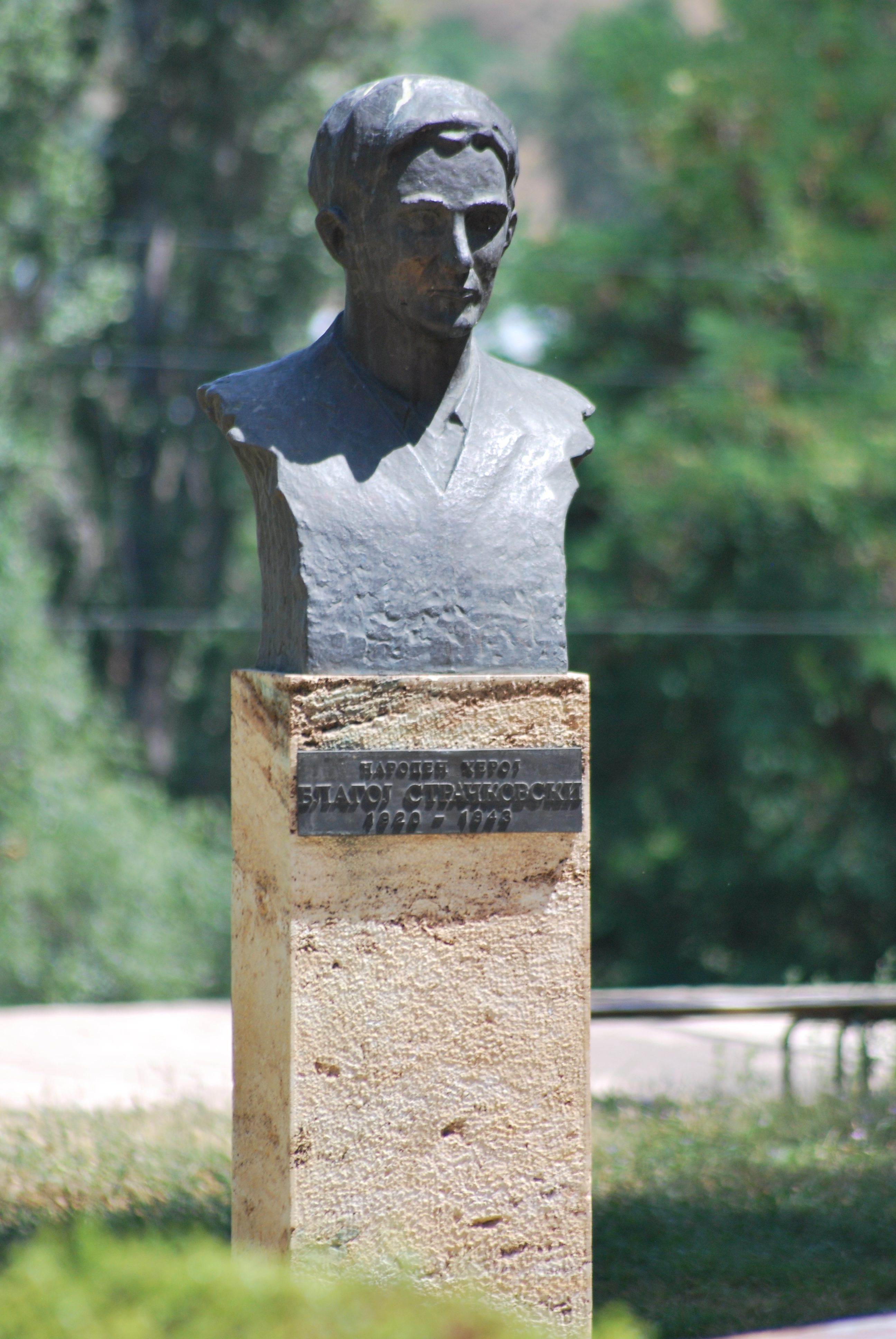 This image is uploaded as part of the picture contest Wiki Loves Cultural Heritage in Macedonia 2013. English | македонски | +/− Биста на Благој Страчковски во Велес